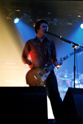 King Adora lead guitarist Martyn Nelson performing live at the London Electric Ballroom in December 2001.